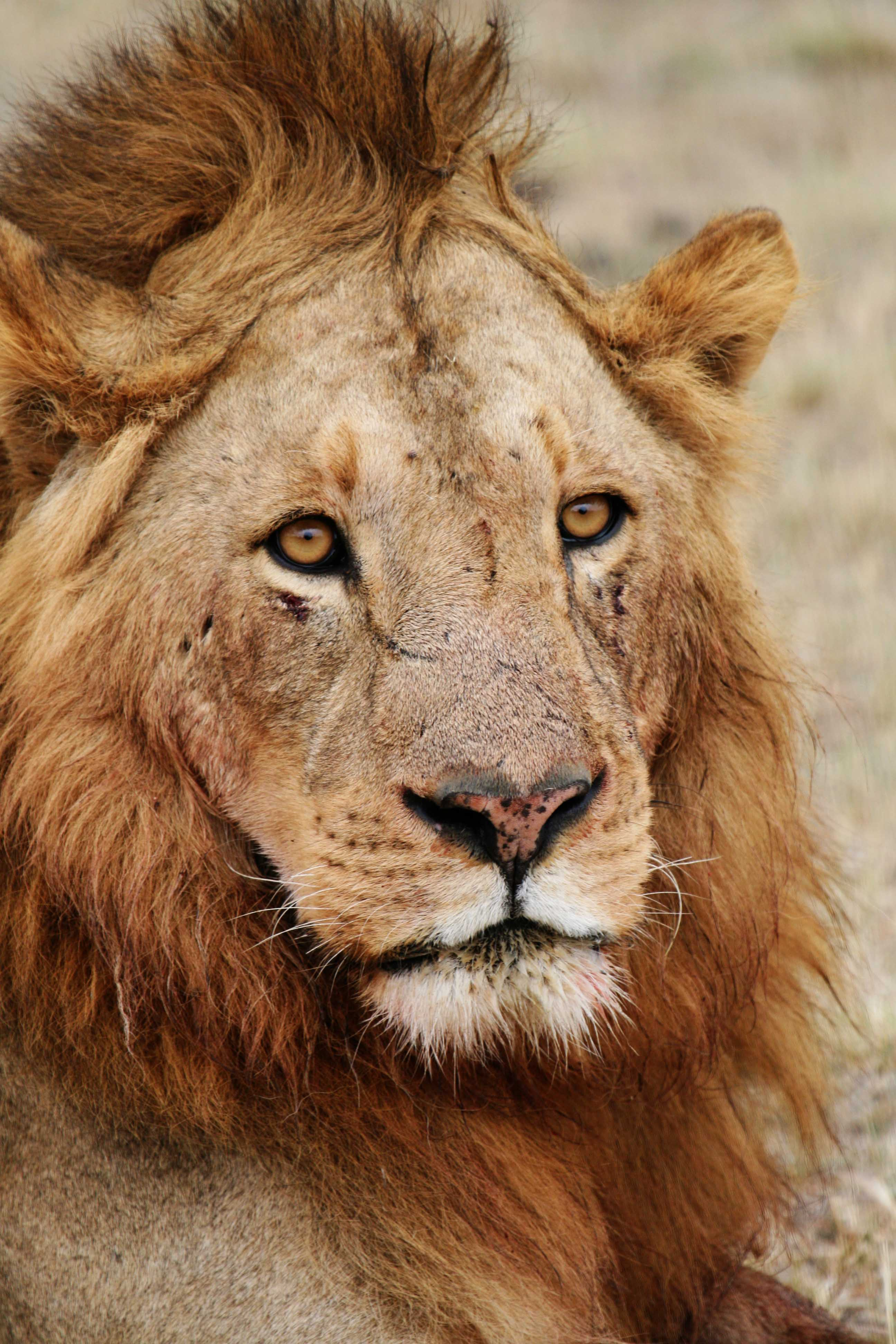 Male lion from Ngorongoro Crater, Tanzania. Photo by Lee R. Berger.